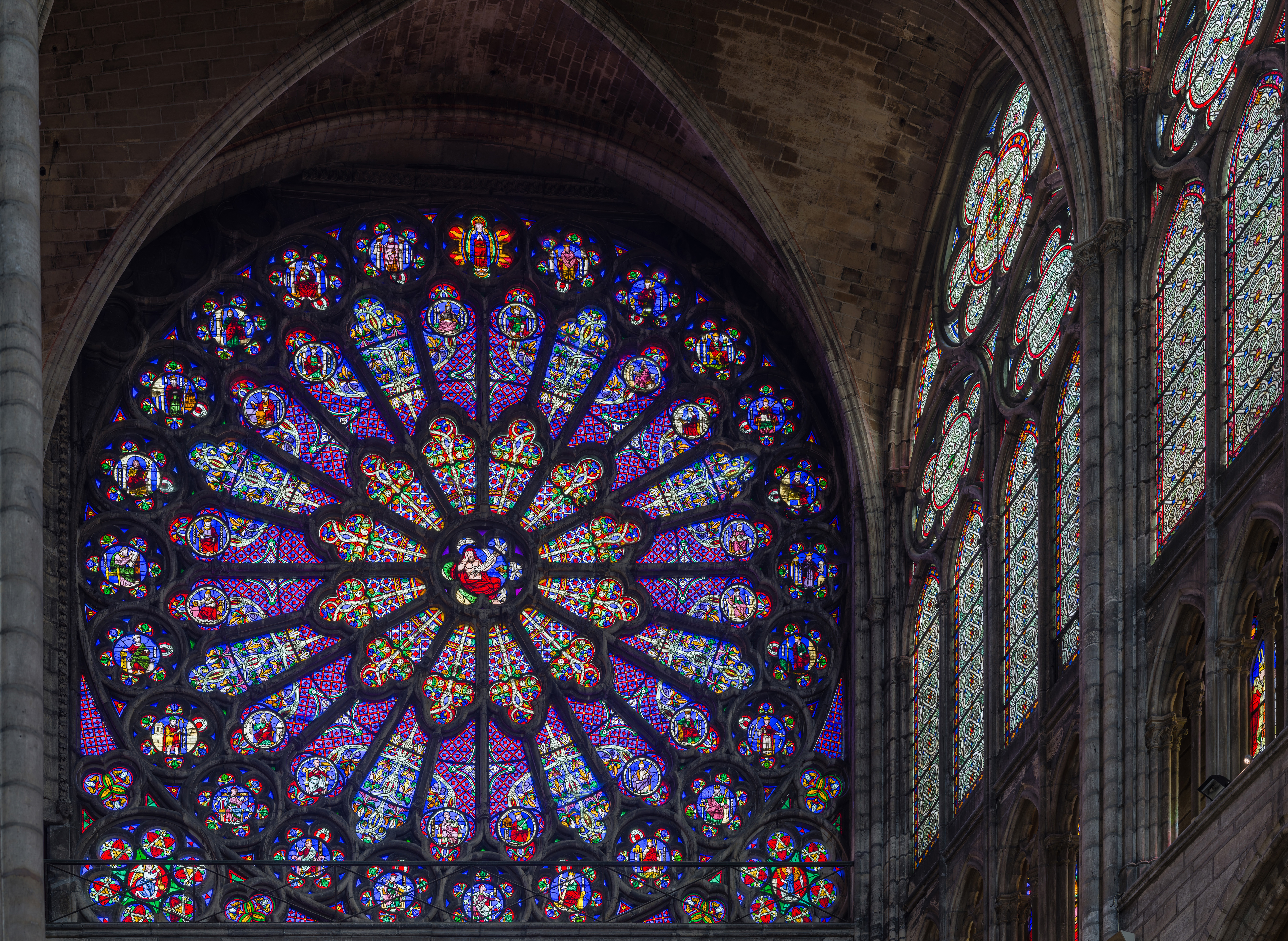 The stained glass rose window of the north transept of the Basilica of Saint Denis in Paris, France.